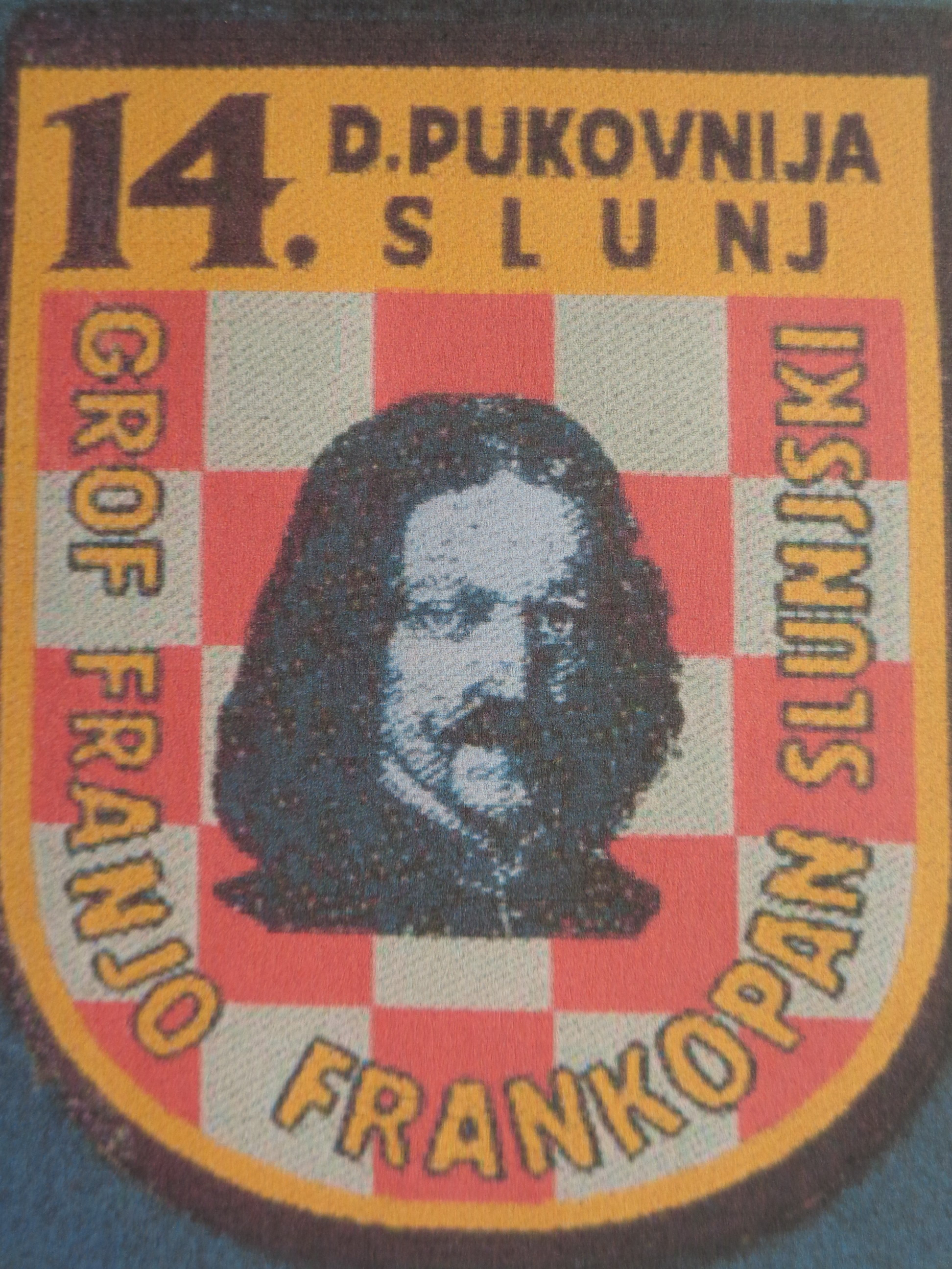 Franjo (Francis) Frankopan Slunjski (*1536 - †1572), Prince of Krk, Senj and Modruš (Slunj branch), Ban (Viceroy) of Croatia 1567-1572, depicted on a military badge of the 14th Home Guards Regiment of the Croatian Army with headquarters in Slunj